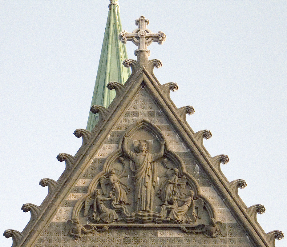 Christ in triumph (Kristus i triumf) from the west wall of Nidarosdomen. Modelled by Kristofer Leirdal (1915- ) and chiseled by Steffen Krogstad, Josef Ankile, Øivind Nergård, Josef Skaufel, Gunnar Olsen and Rolf Johansen 1958-1961.